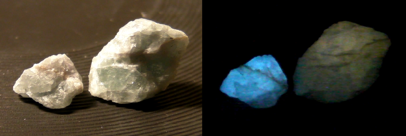 thermoluminescence of fluorite (chlorophane) specimens which emit light when heated on a hot plate. Too high a temperature can break the crystal. The phenomenon only lasts for a few minutes, then disappears. The light emitted at the beginning seems to be white, and tends to be a little blue at the end.